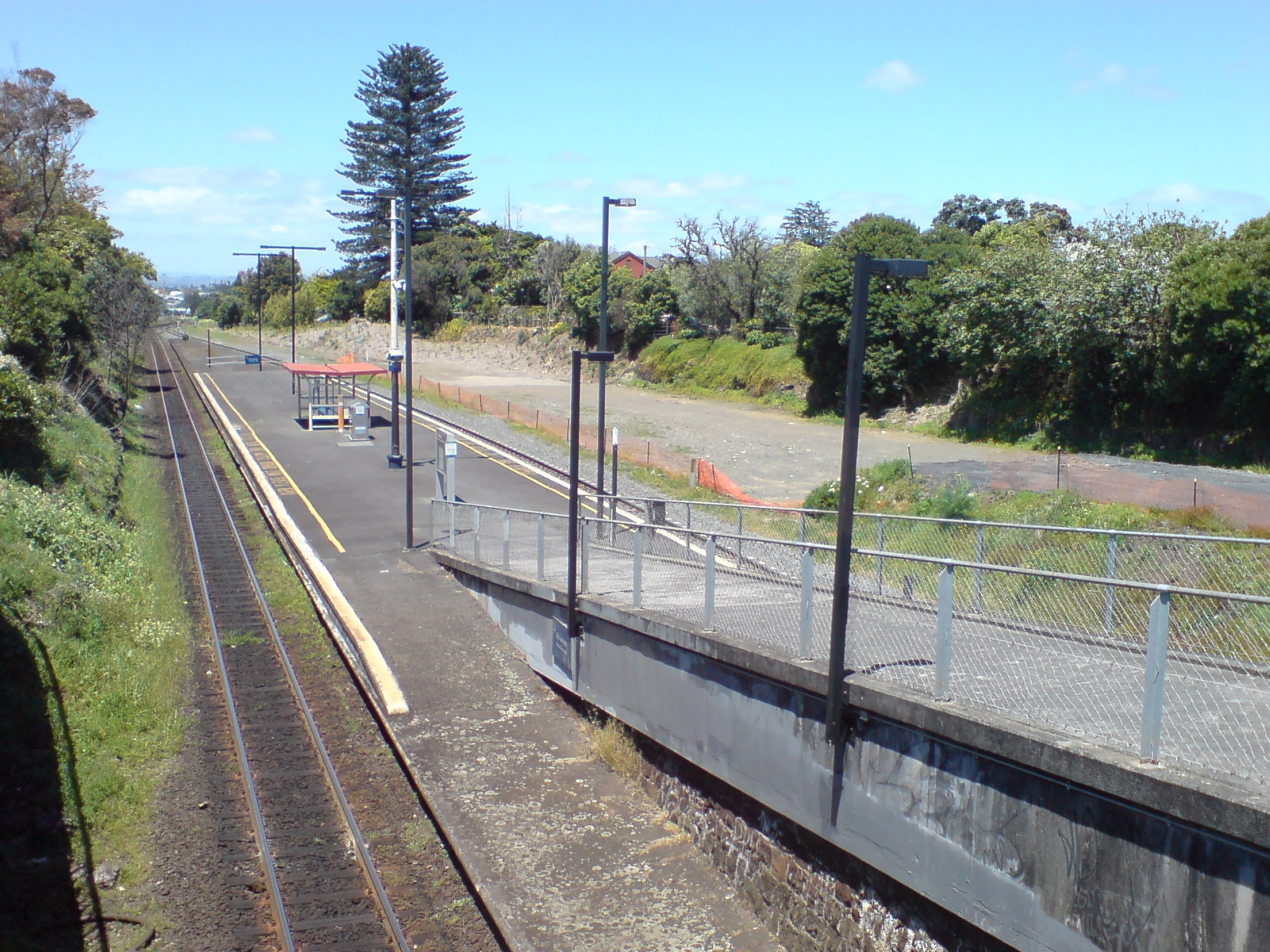 Greenlane Train Station, Auckland City, New Zealand.